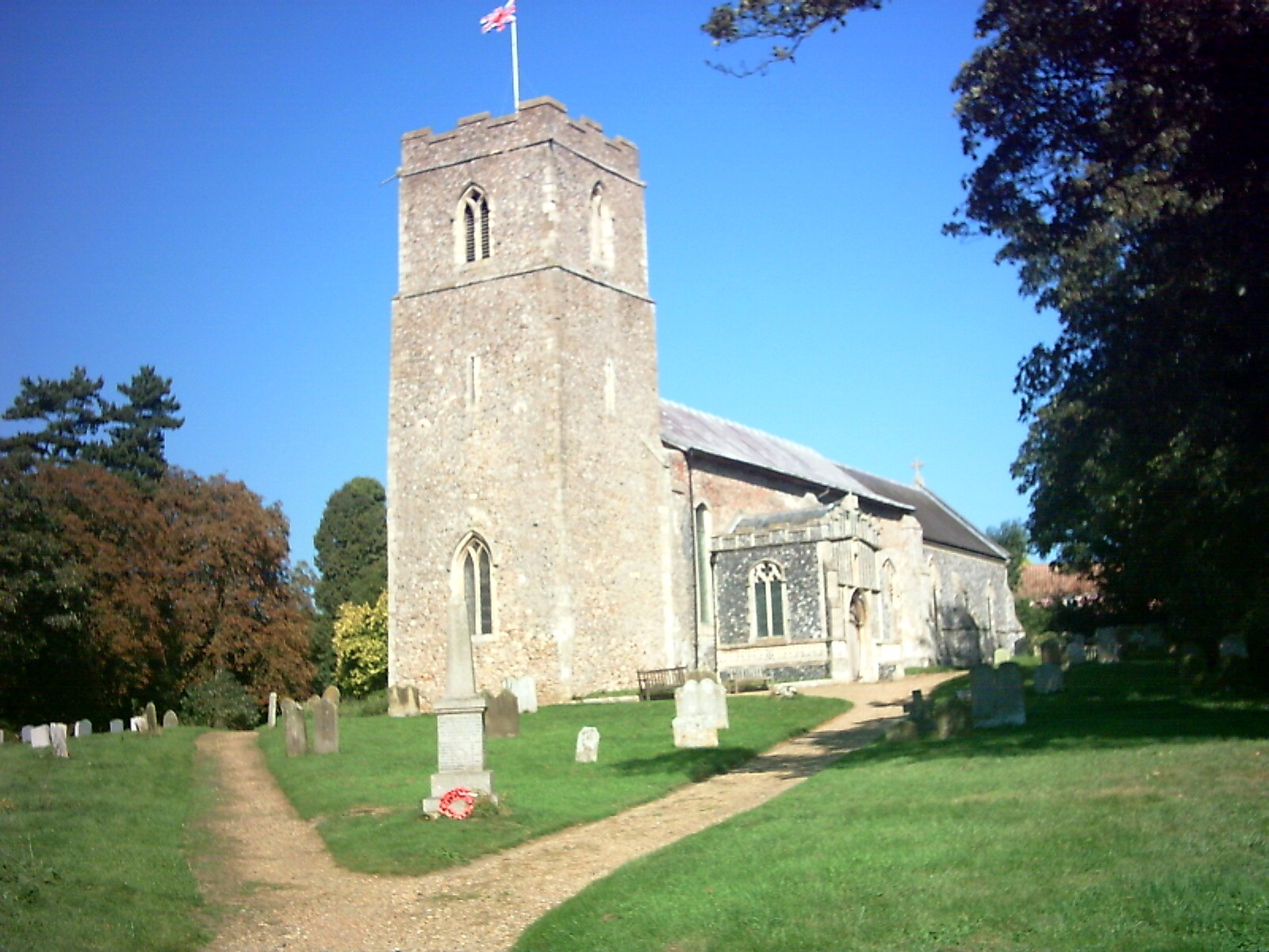 Church of St John the Baptist in Badingham, Suffolk, England. A Grade I listed medieval church.